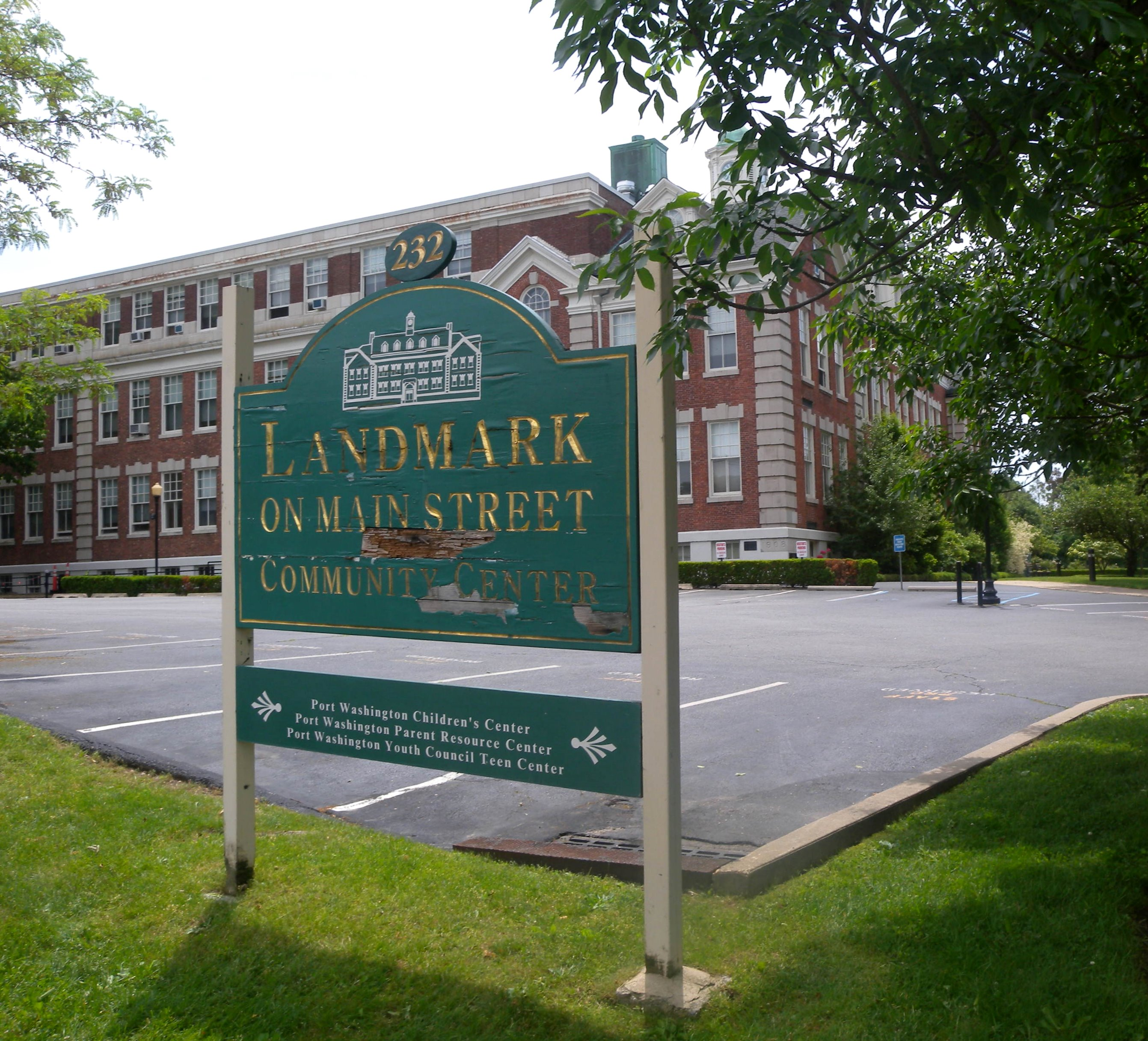 Looking southeast at former Main Street School on a sunny midday.